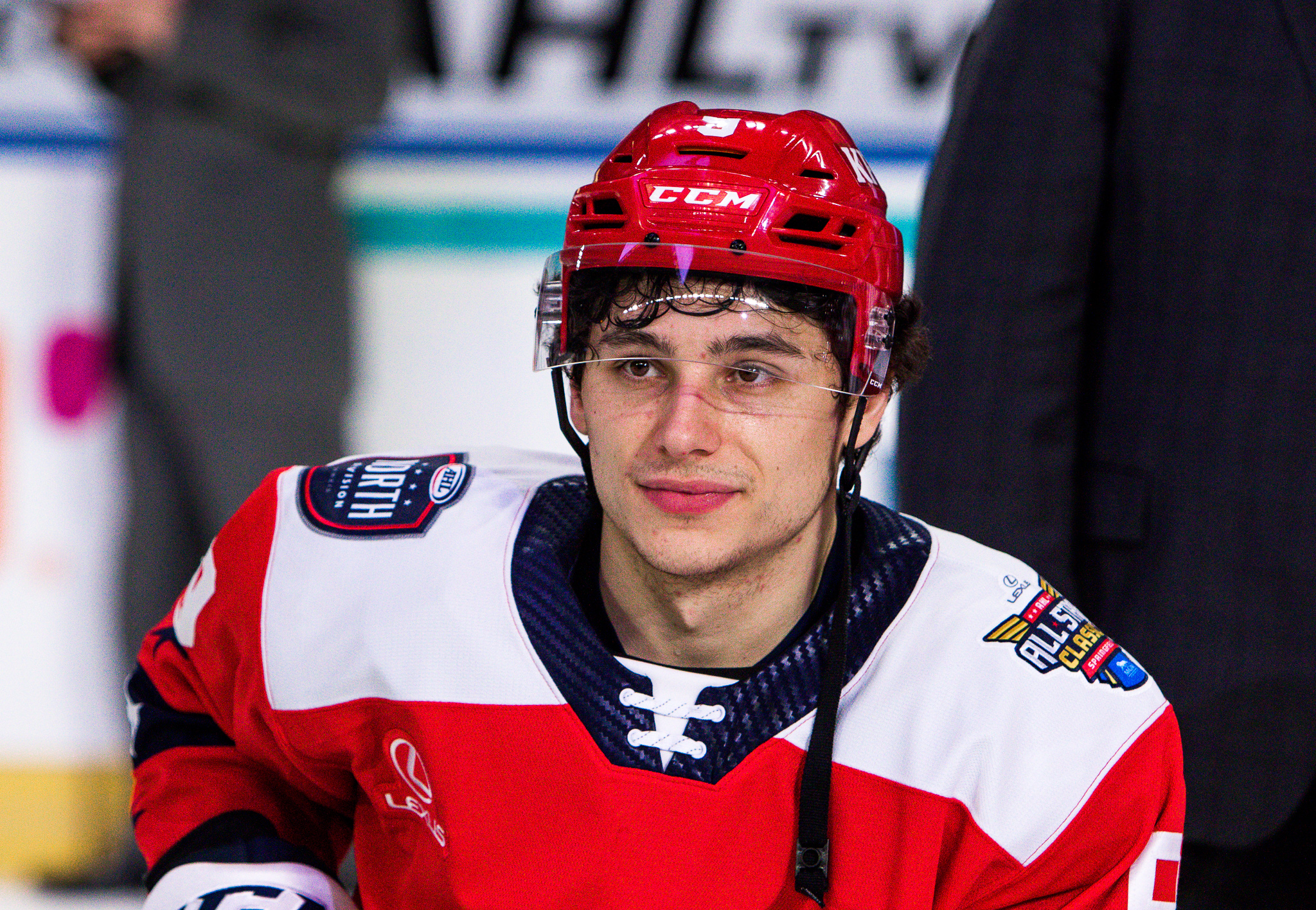 Photo By: Kelly Shea